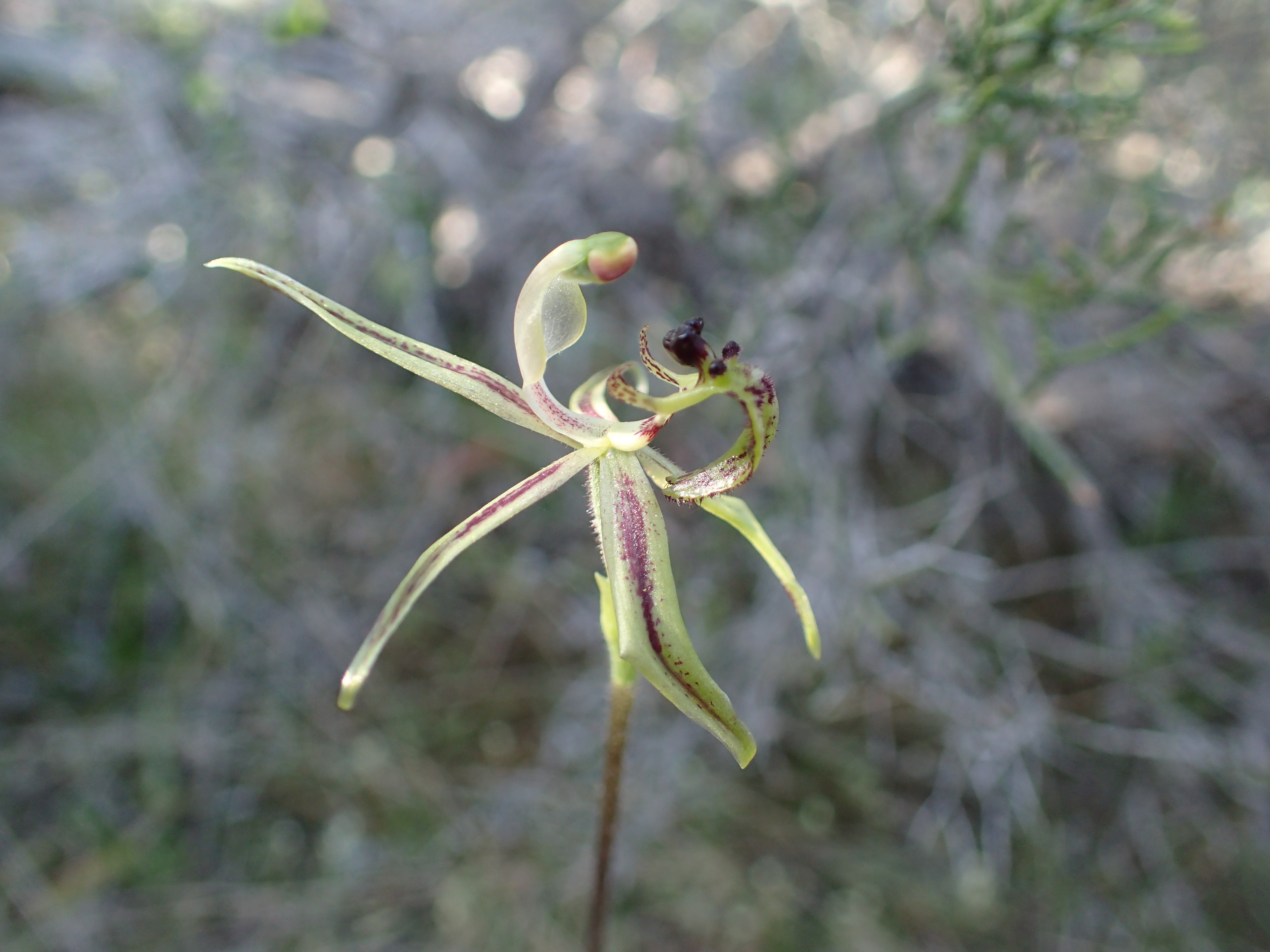 Caladenia mesocera growing near Lake King in Western Australia